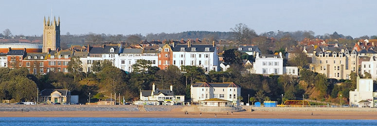 View of Exmouth from Dawlish Warren. 2007